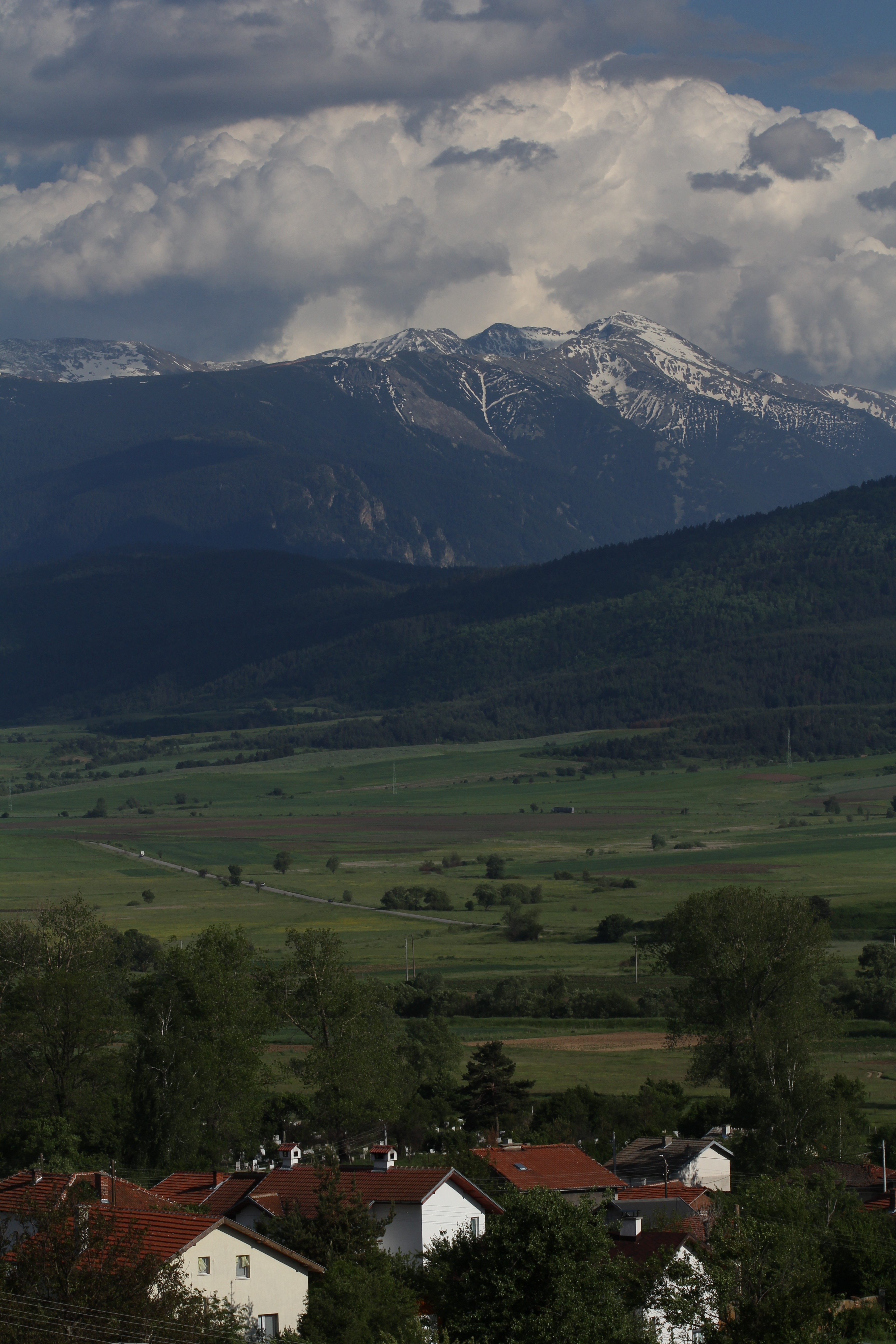 Rila mountain, a view from Relyovo village